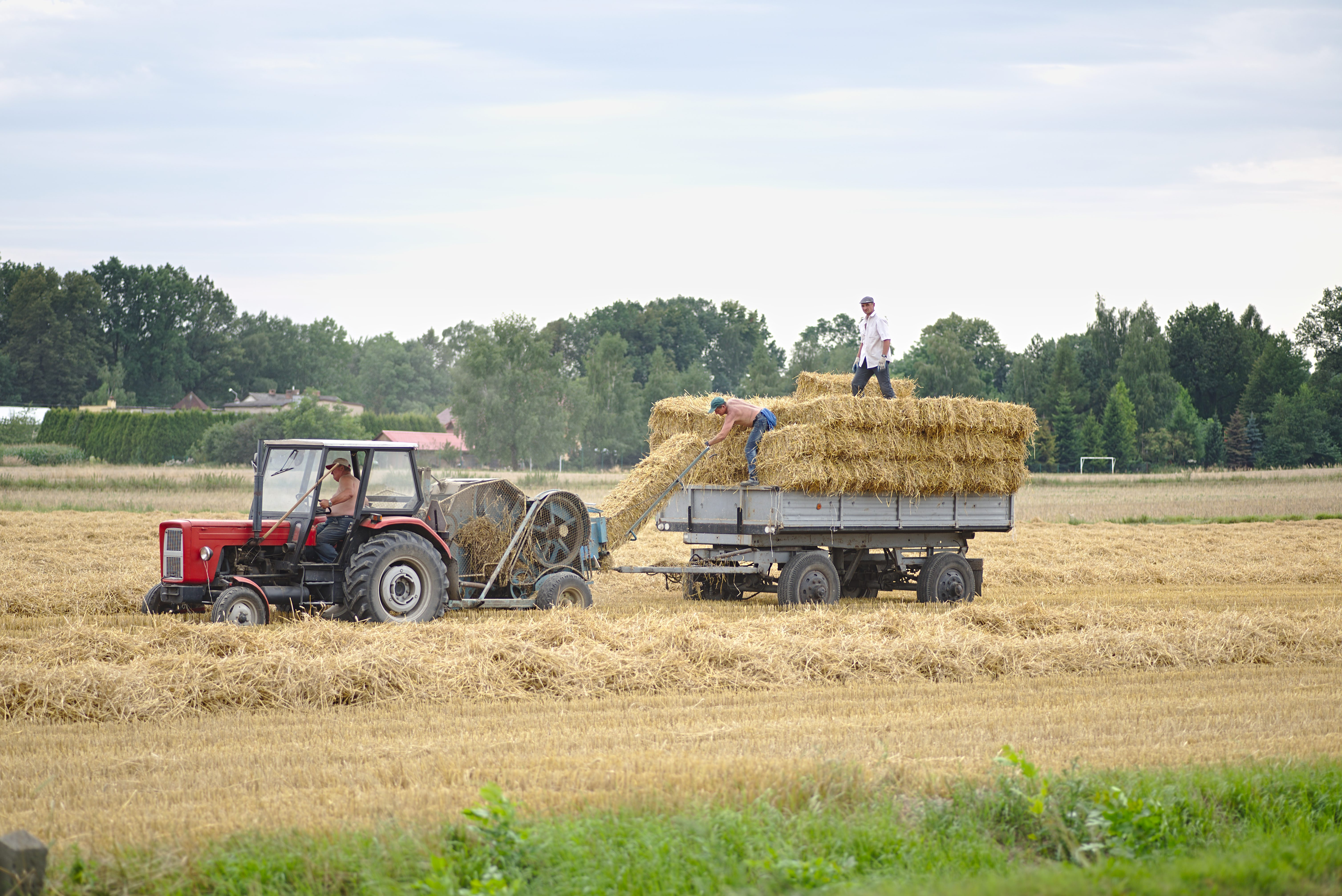 (Originally published at